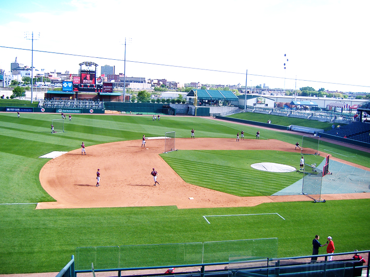 Hawks field at Haymarket Park. Home of the University of Nebraska Cornhuskers and the Lincoln Saltdogs.